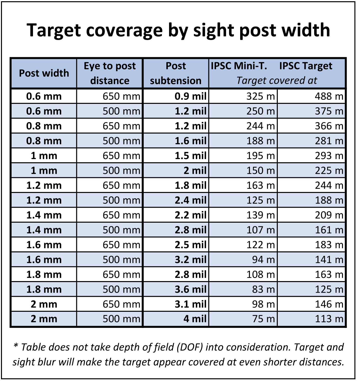 Table of different front sight post sizes and at what distances the full width of a shooting target will be covered.